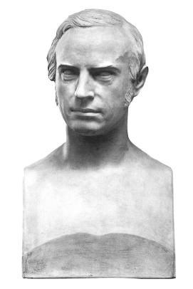 Bust of norwegian author Johan Welhaven (1807-1873) by norwegian sculptor Julius Middelthun (1820-1886); made 1867; owned by Nasjonalgalleriet